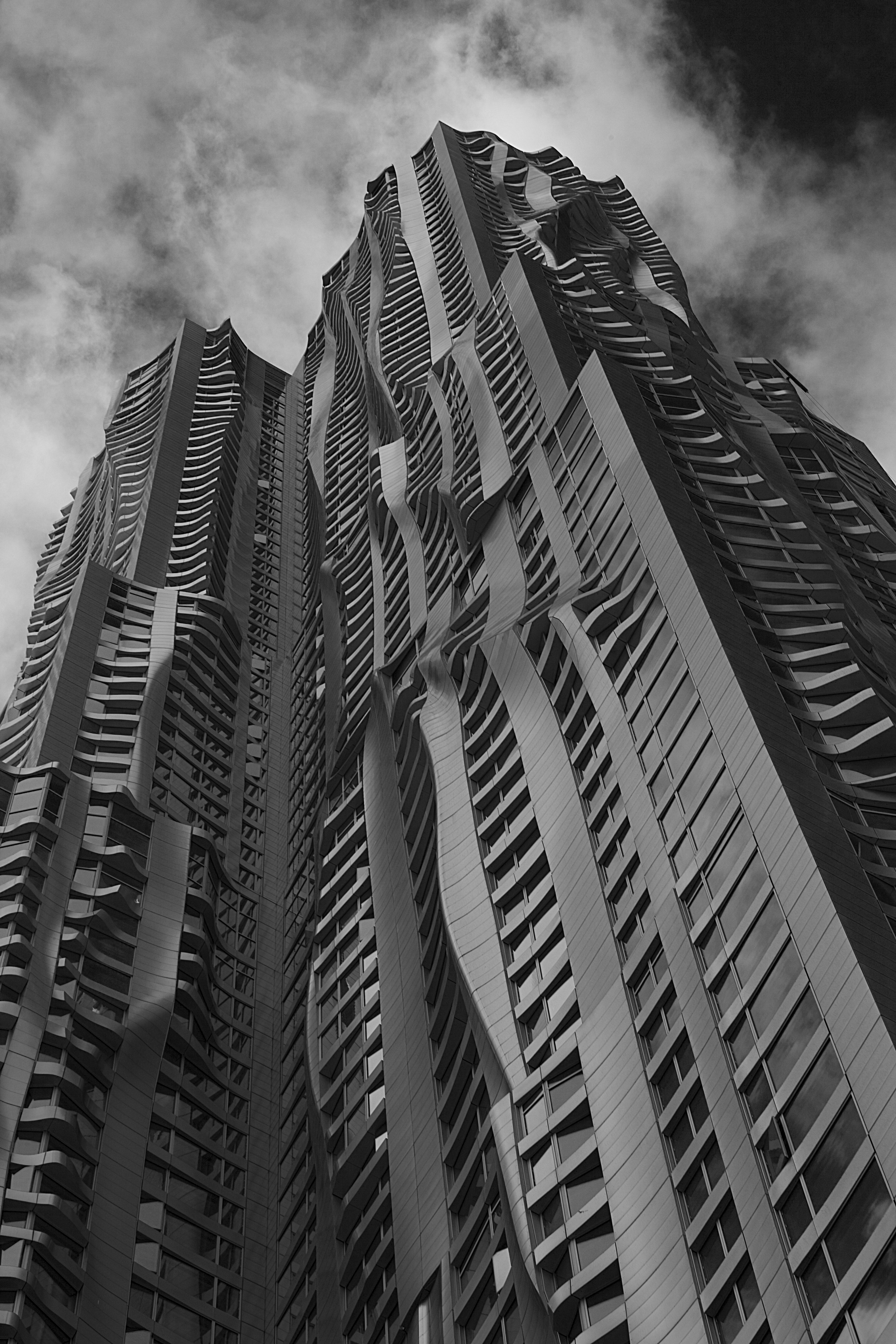 [Beekman Place, NYC, Designed by Frank Gehry, at 8 Spruce Street in lower Manhattan, scheduled completion - 2012. Titanium and Glass exterior, 76 stories.]